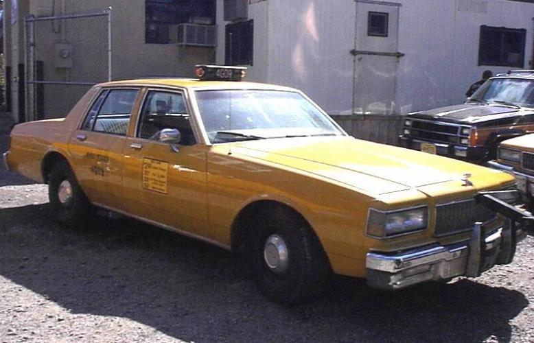 This Old 1987-1989 Chevrolet Caprice Taxi Operating around in New York City in the late 1980s to early 2000s